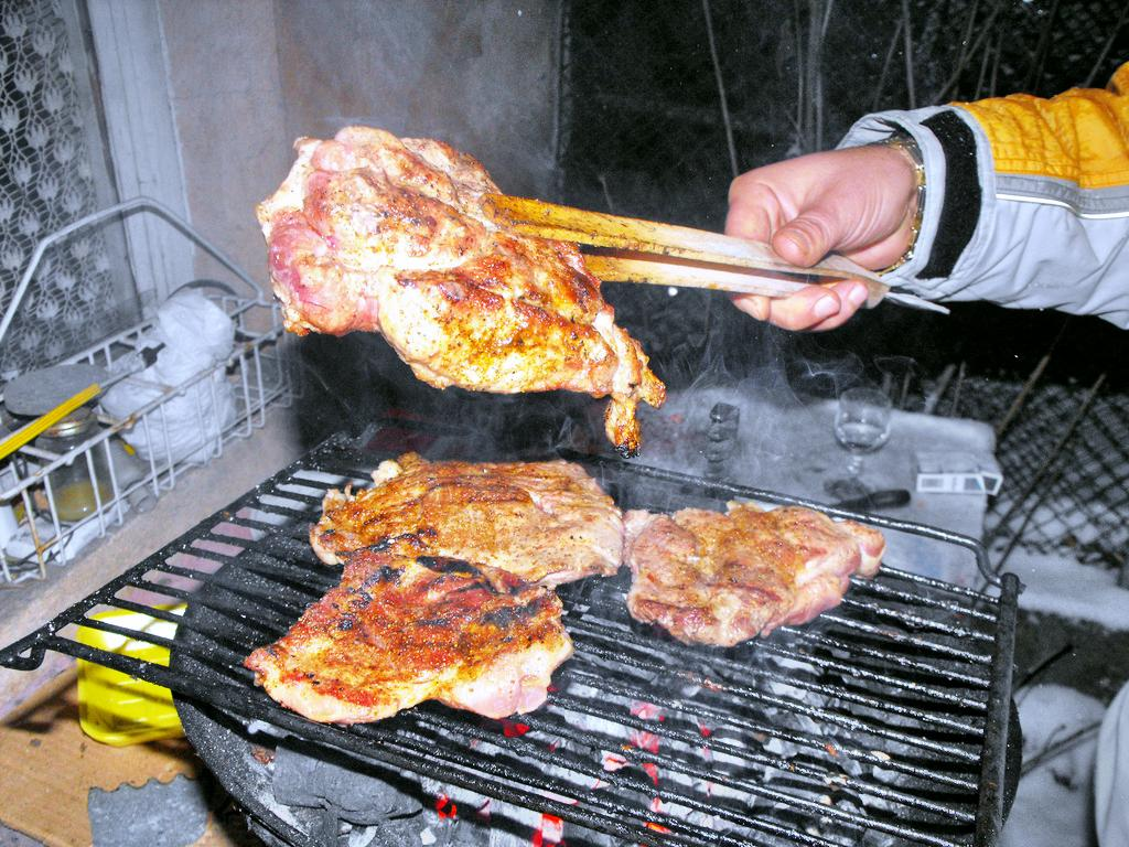 Grilled meal before x-mas